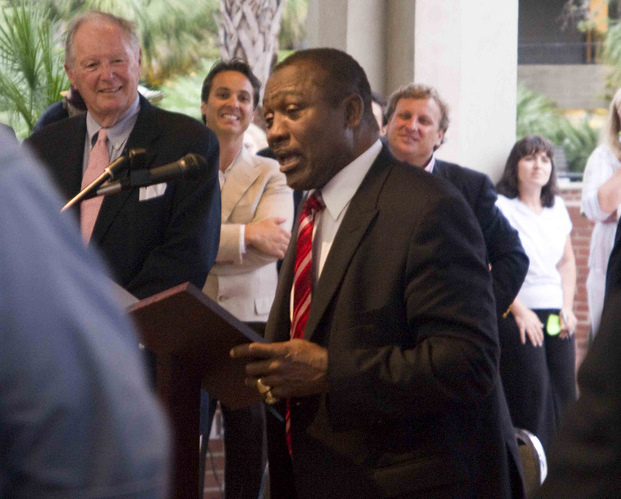 Joe Frazier was awarded the Order of the Palmetto in Beaufort, South Carolina, United States.